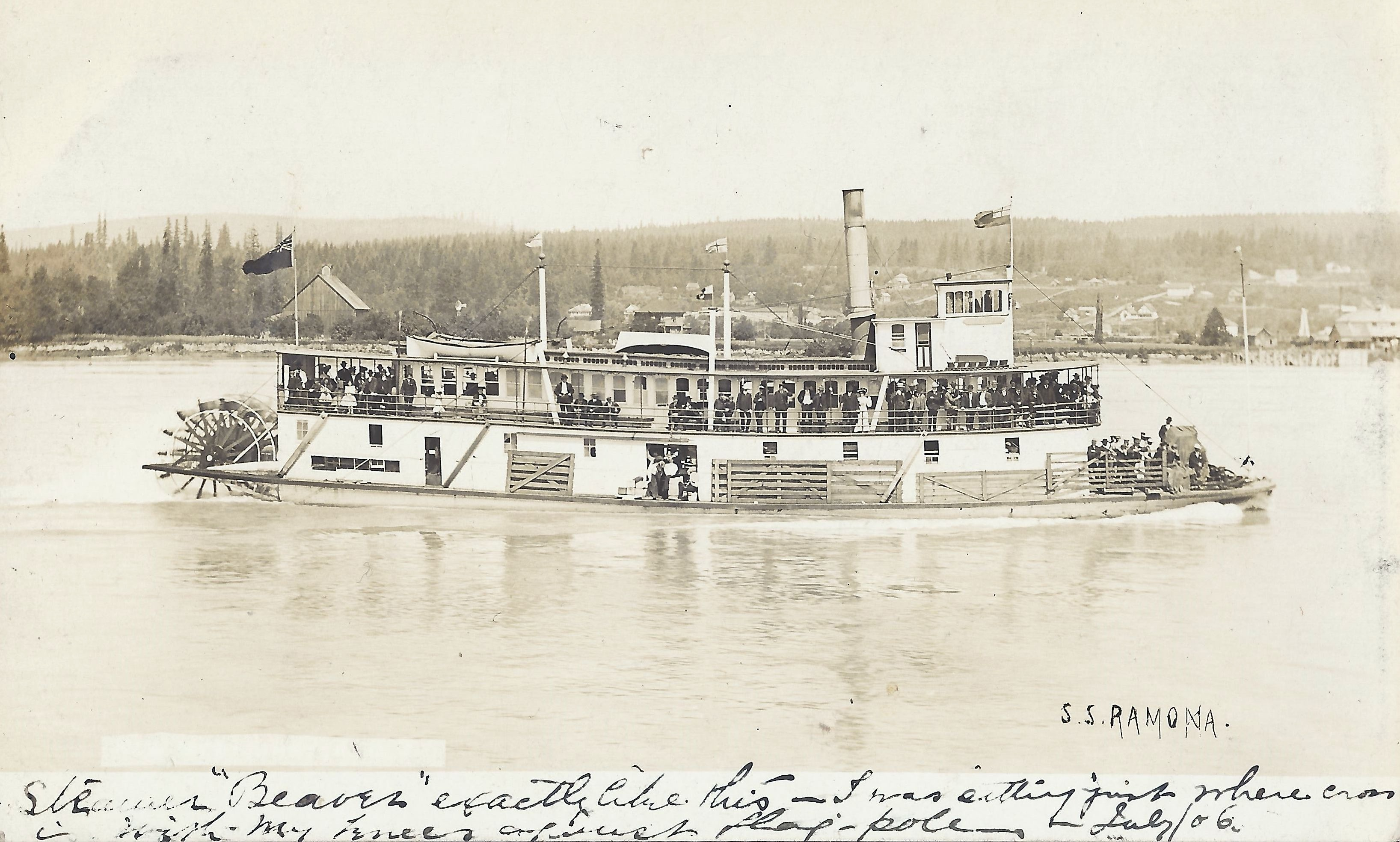 Ramona, sternwheeler, shown on Fraser River, in British Columbia, sometime prior to July 1906.